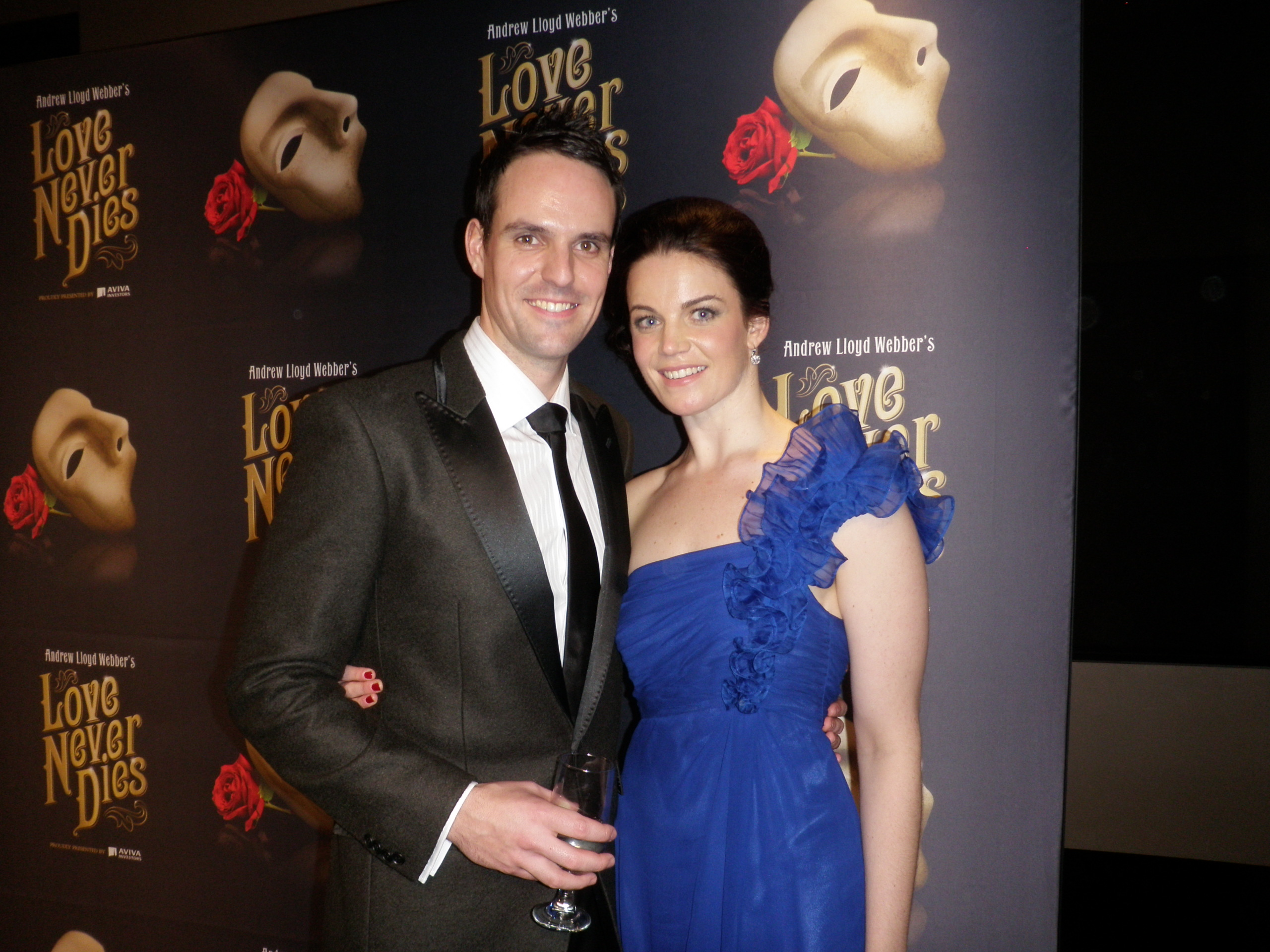 Ben Lewis and wife Melle Stewart